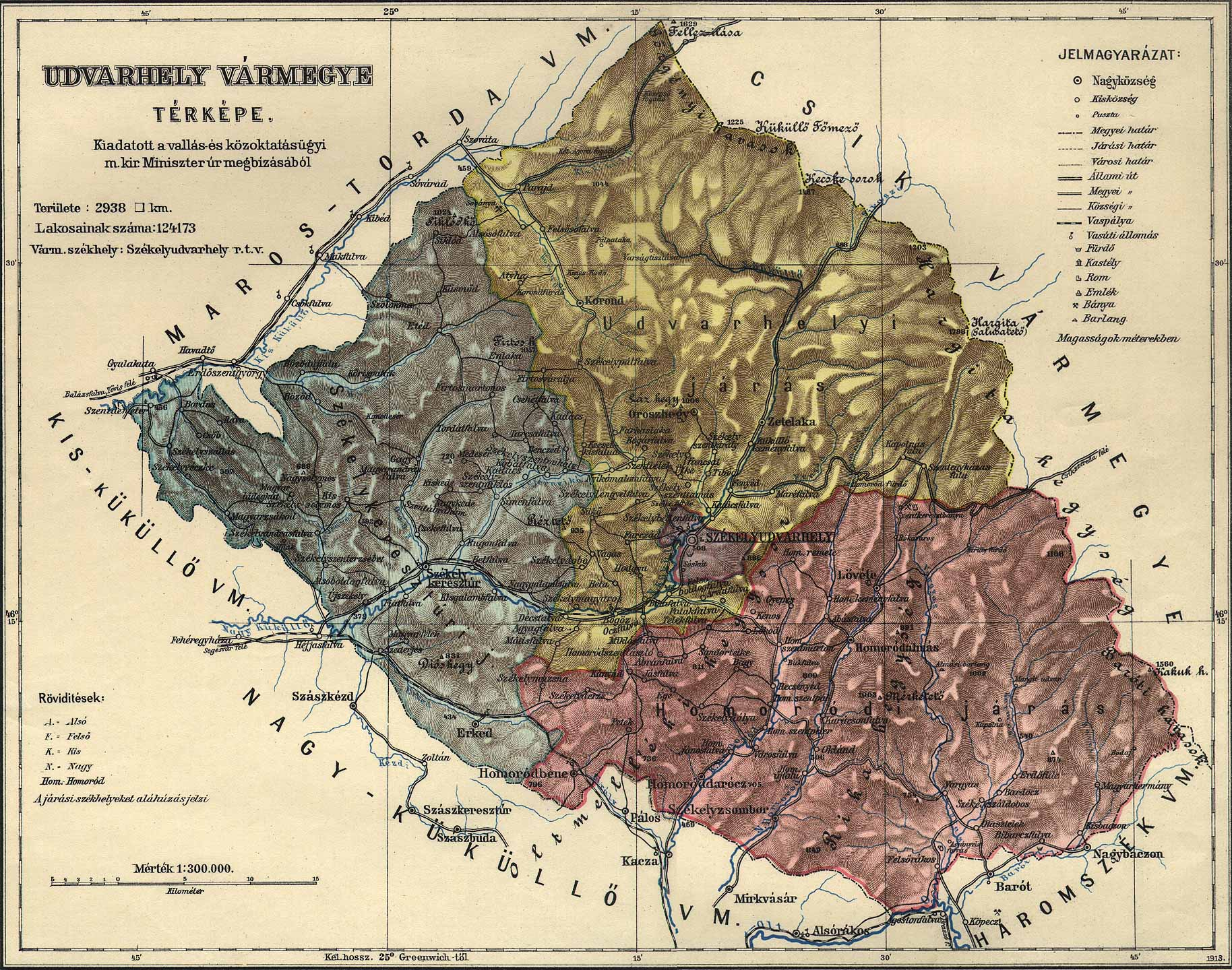 Administrative map of the county of Udvarhely in the Kingdom of Hungary